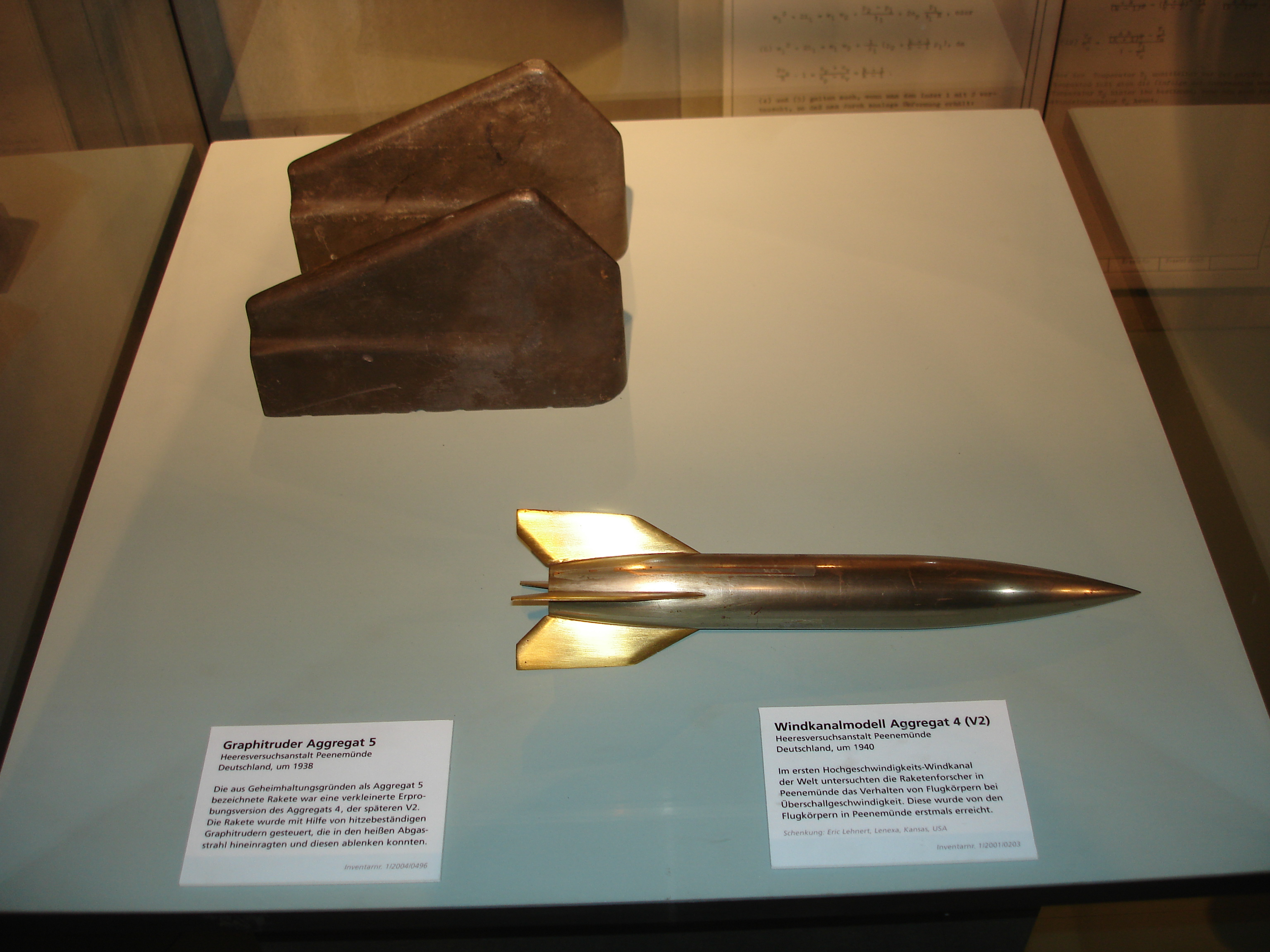 wind channel model of an A4